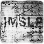 A IMSLP / Petrucci Music Library logo. The score image in the background was taken from the beginning of the very first printed book of music, the Harmonice Musices Odhecaton. It was published in Venice, Italy in 1501 by Ottaviano Petrucci, the library's namesake.